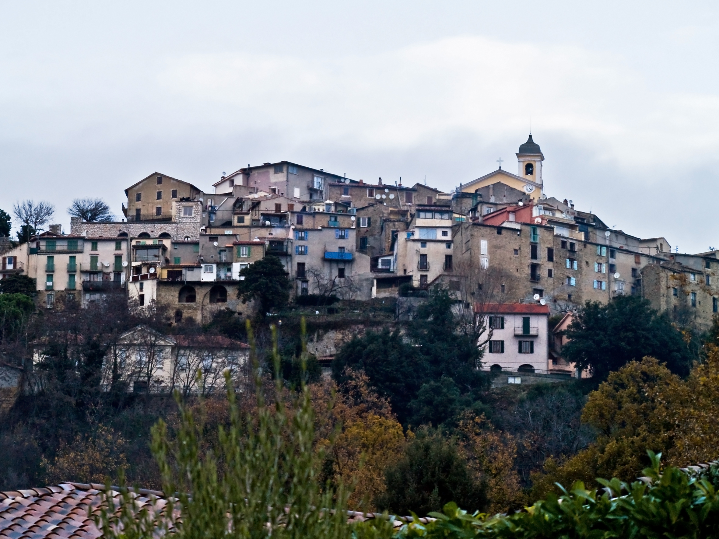 Berre-les-Alpes, Alpes-Maritimes, France